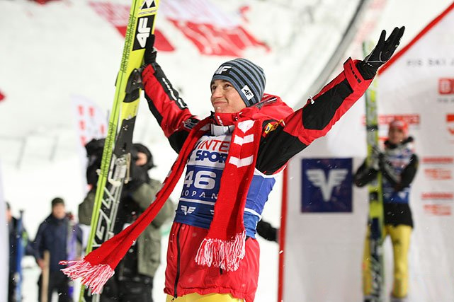 Kamil Stoch during friday competition of FIS Ski Jumping World Cup in Zakopane 2012, in which he won